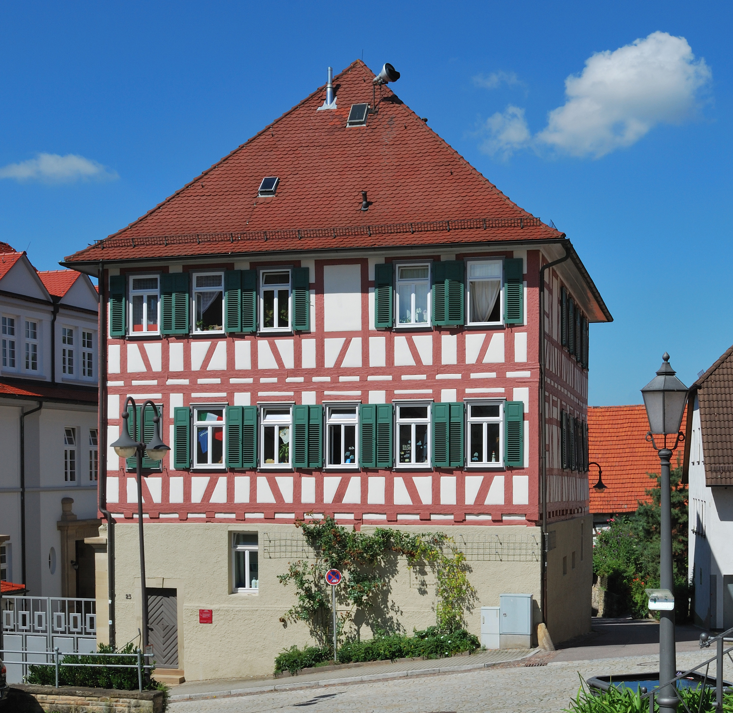 The small castle in Schwieberdingen in Southern Germany.